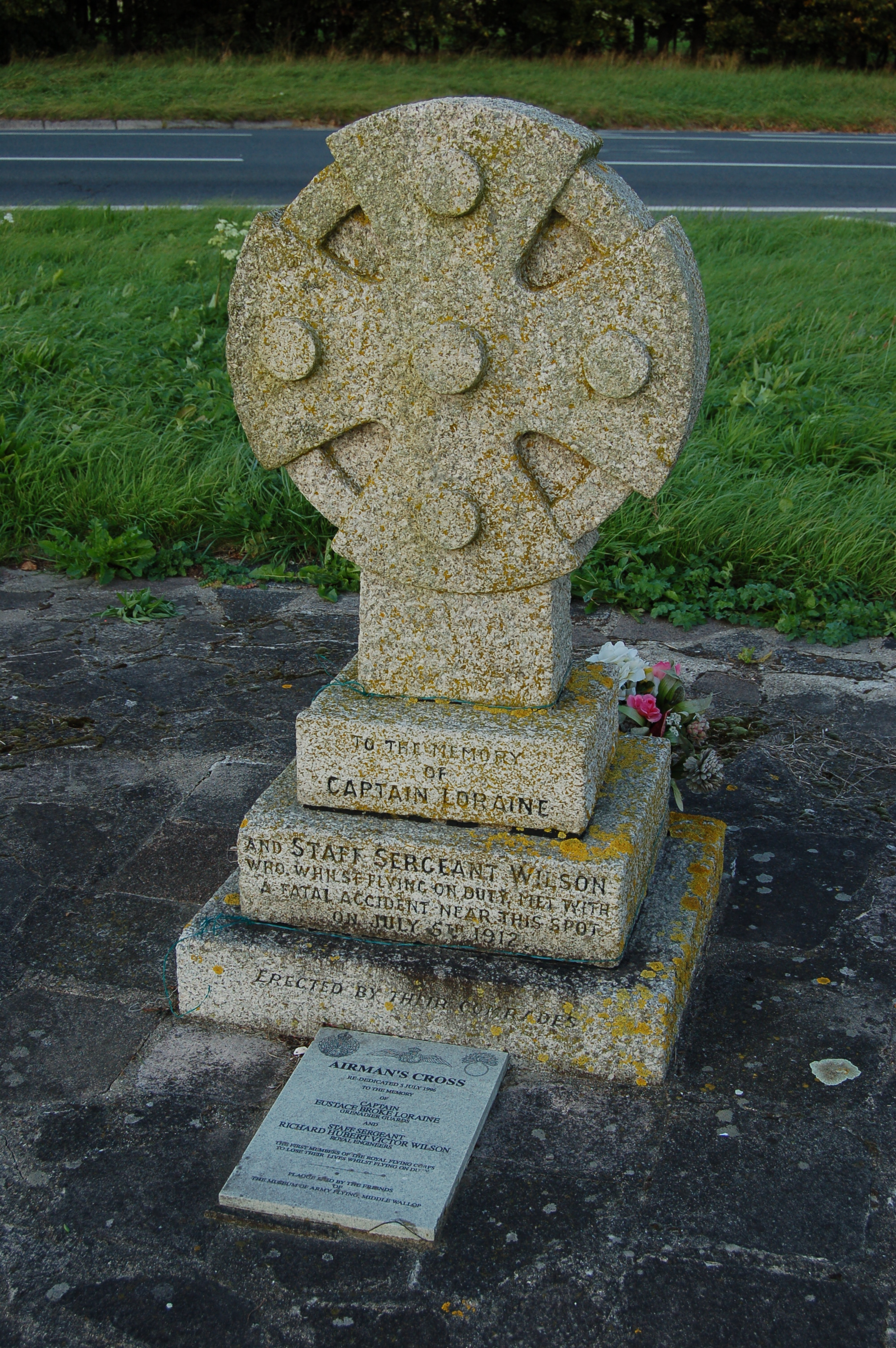 Photograph of the memorial to Captain Loraine and Staff-Sergeant Wilson commonly known as Airmen's Cross